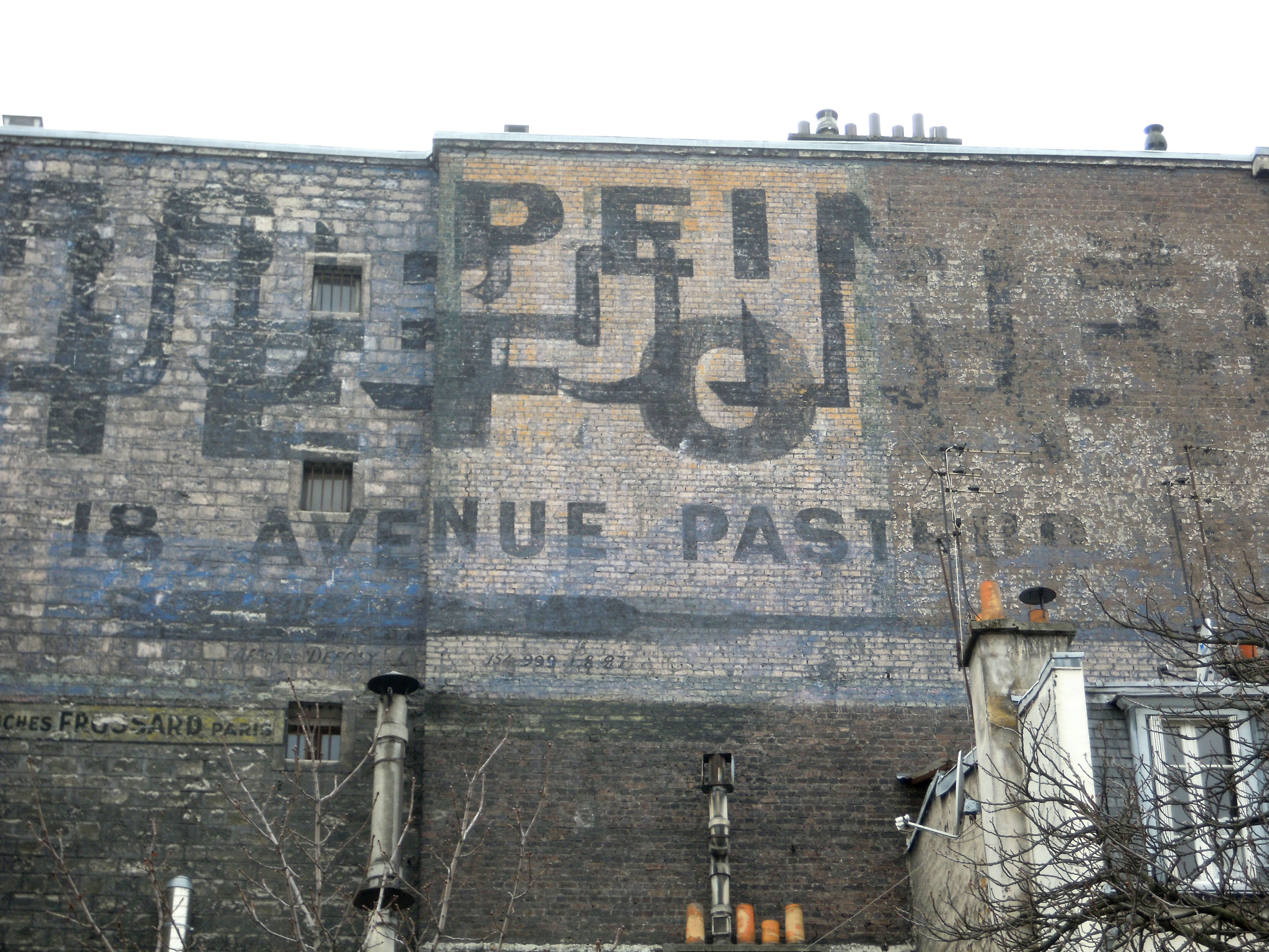 Old mural advertisements scratched and superposed forming a "palimpsest", Pasteur Avenue, Paris.